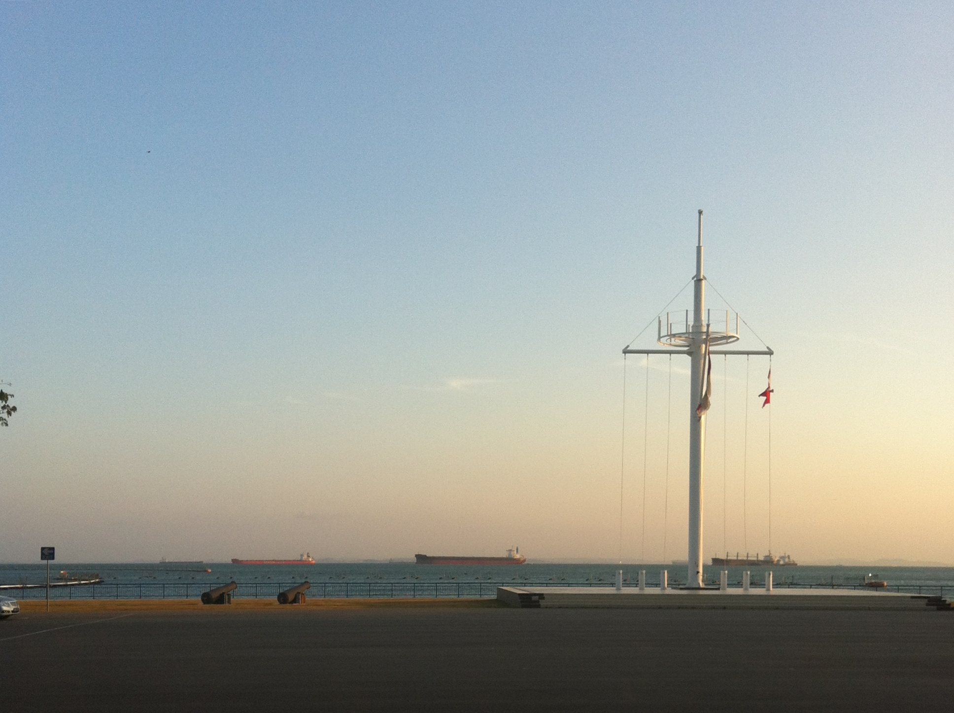 Singapore Naval Military Expert Institute overlooks the Singapore Strait